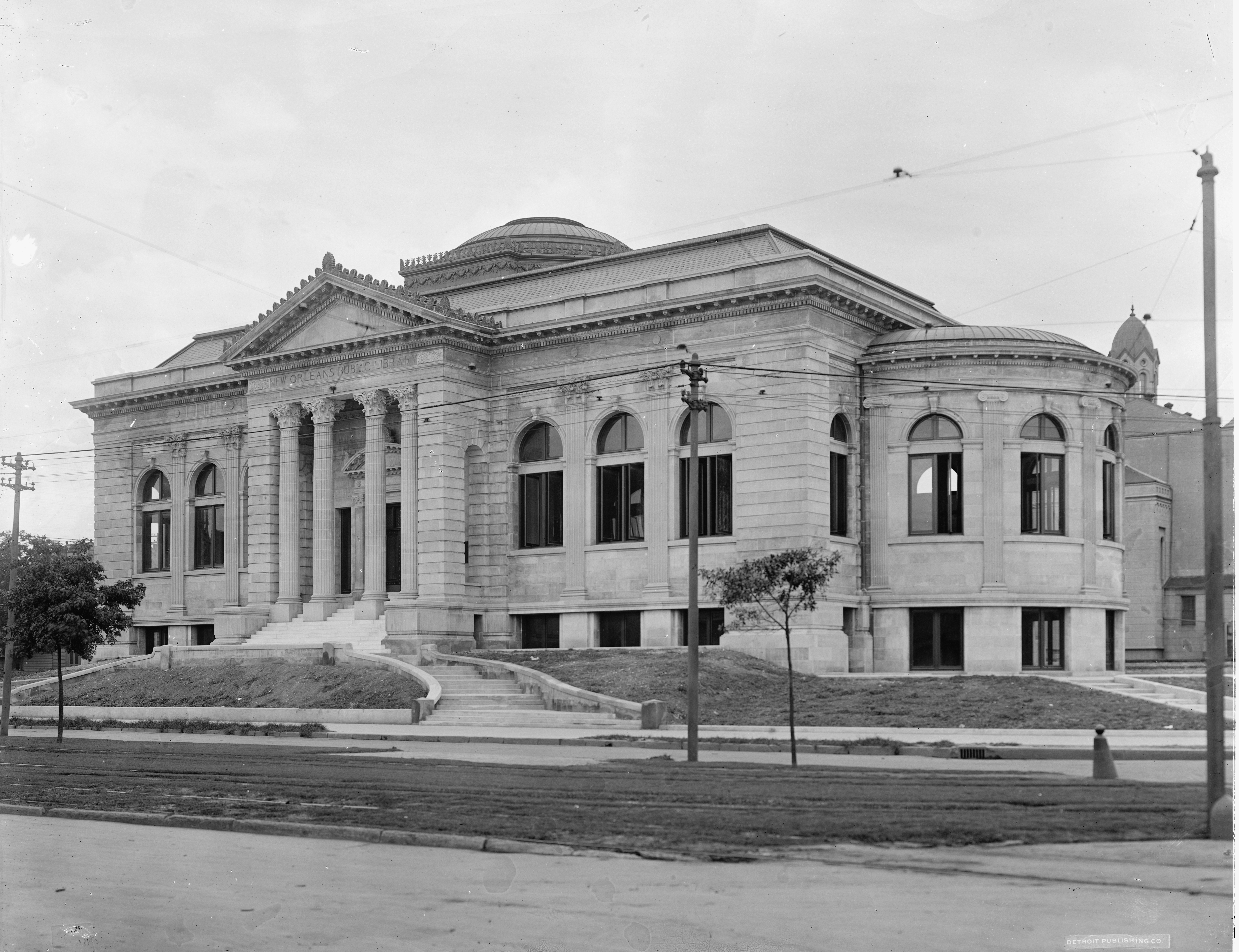 New Main building of the New Orleans Public Library — at Lee Circle, New Orleans (circa 1908). The building opened that year, the photo looks like the exterior construction is complete, but the building may not yet be occupied. Demolished in 1959.